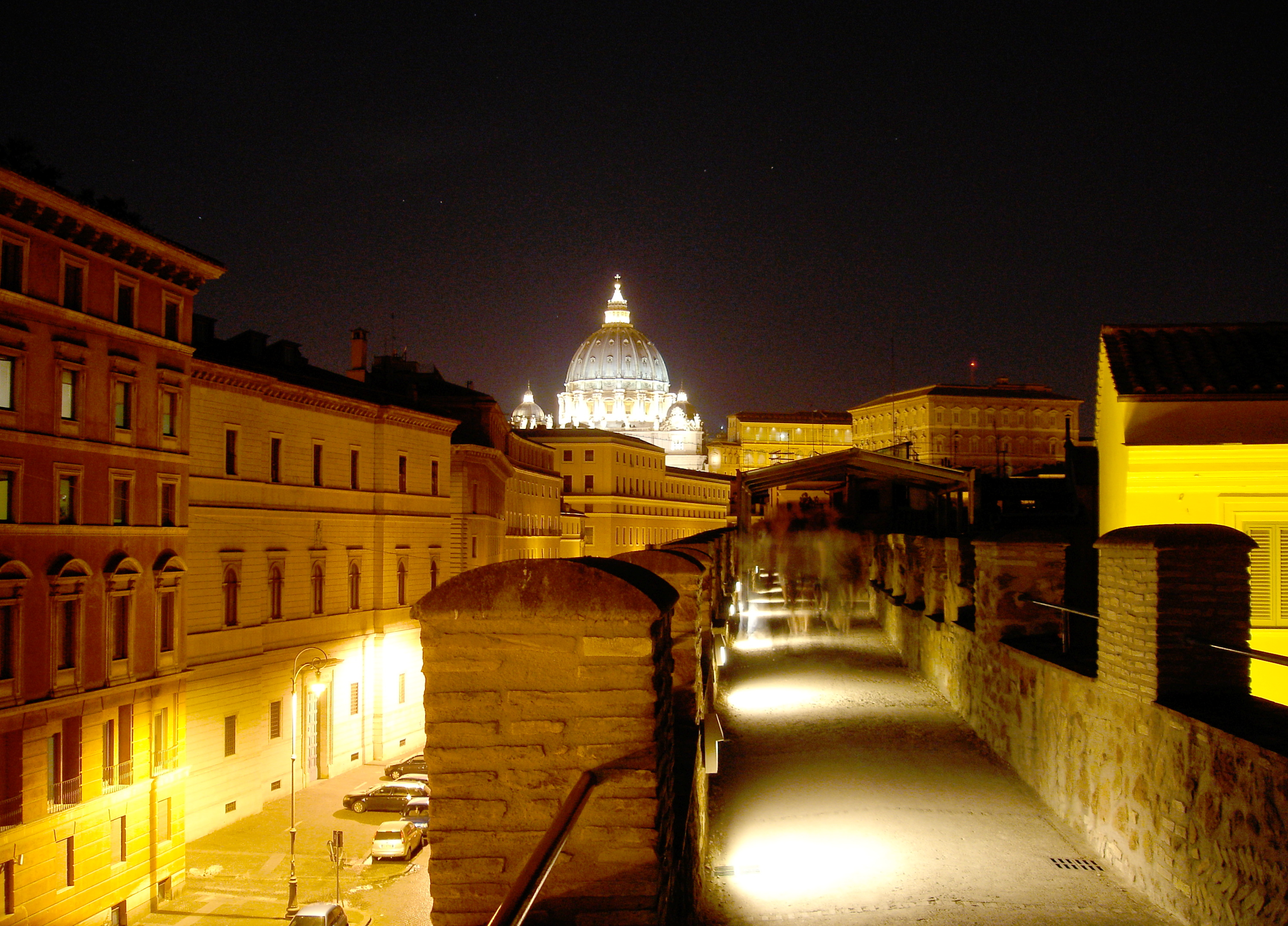 view of the Passetto, the secret passage between the Vatican and Castel Sant'Angelo in Rome, Italy. You can see the Vatican in the background.